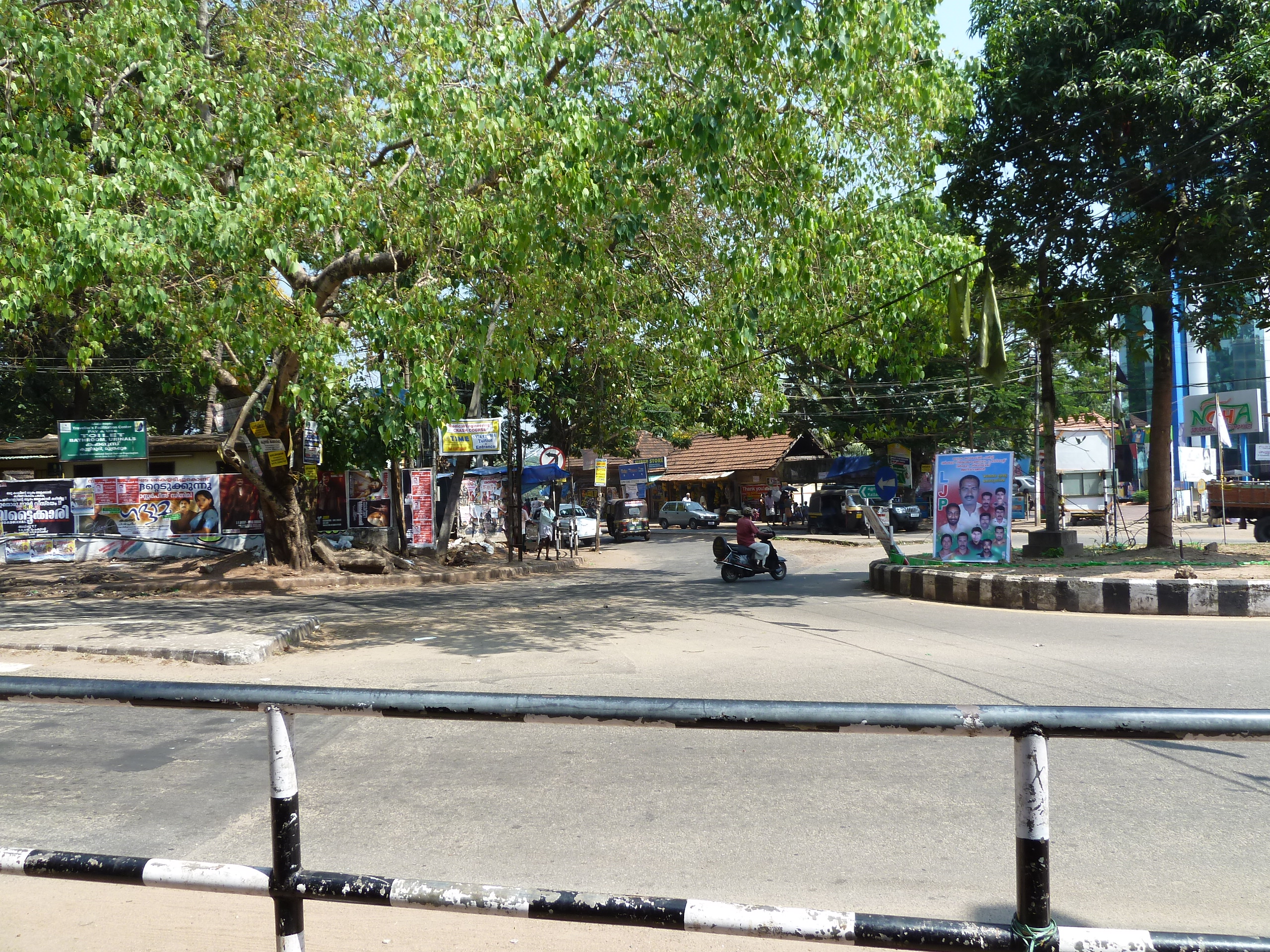 traffic circle in Varkala, India